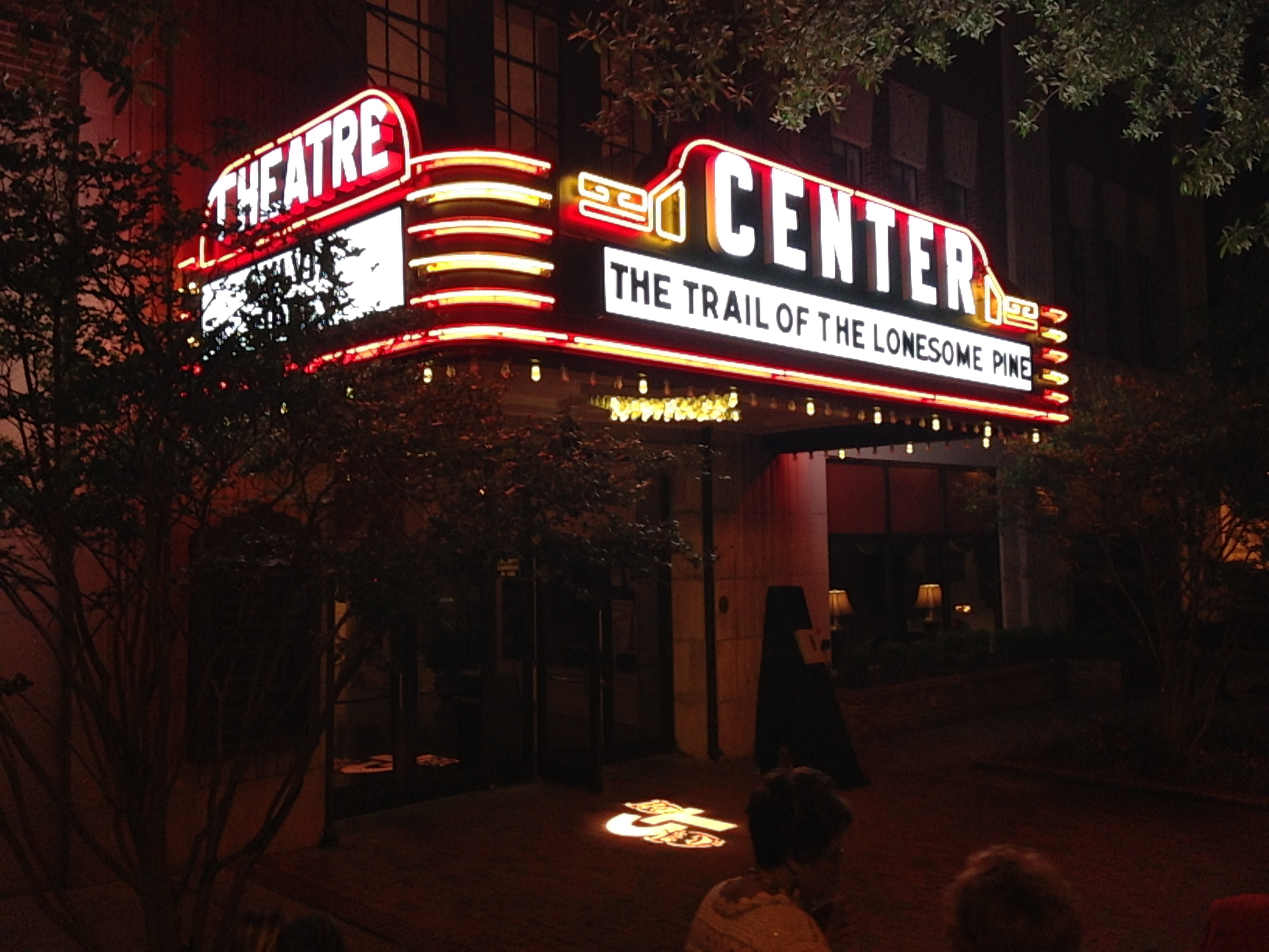 This image was taken on May 13, 2013, at the unveiling ceremony for the new marquee at Center Theater in Hartsville, SC, USA.